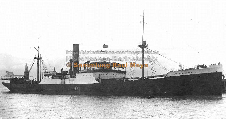 Greek SS Kalypso Vergoti , sunked by German U-boat 29.6/1941